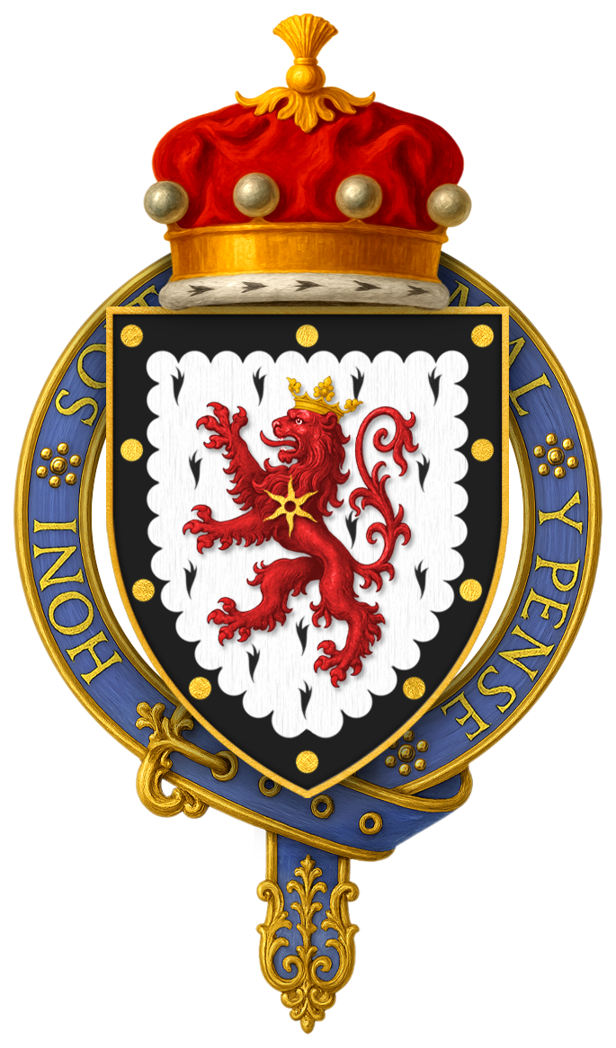 Coat of Arms of Sir John Cornewaille, 1st Baron Fanhope and Milbroke, KG HOPE, W. H. St. John, ‘’The Stall Plates of the Knights of the Order of the Garter 1348 – 1485: A Series of Ninety Full-Sized Coloured Facsimiles with Descriptive Notes and Historical Introductions,’’ Westminster: Archibald Constable and Company LTD, 1901. “Sir John Cornwall, Lord Fanhope, K.G. 1409-1443... arms, ermine a lion gules crowned gold with a gold star on his shoulder and a bordure engrailed sable bezanty...” Stall plate remains intact within the twenty-fifth stall, on the Sovereign's side of the chapel.